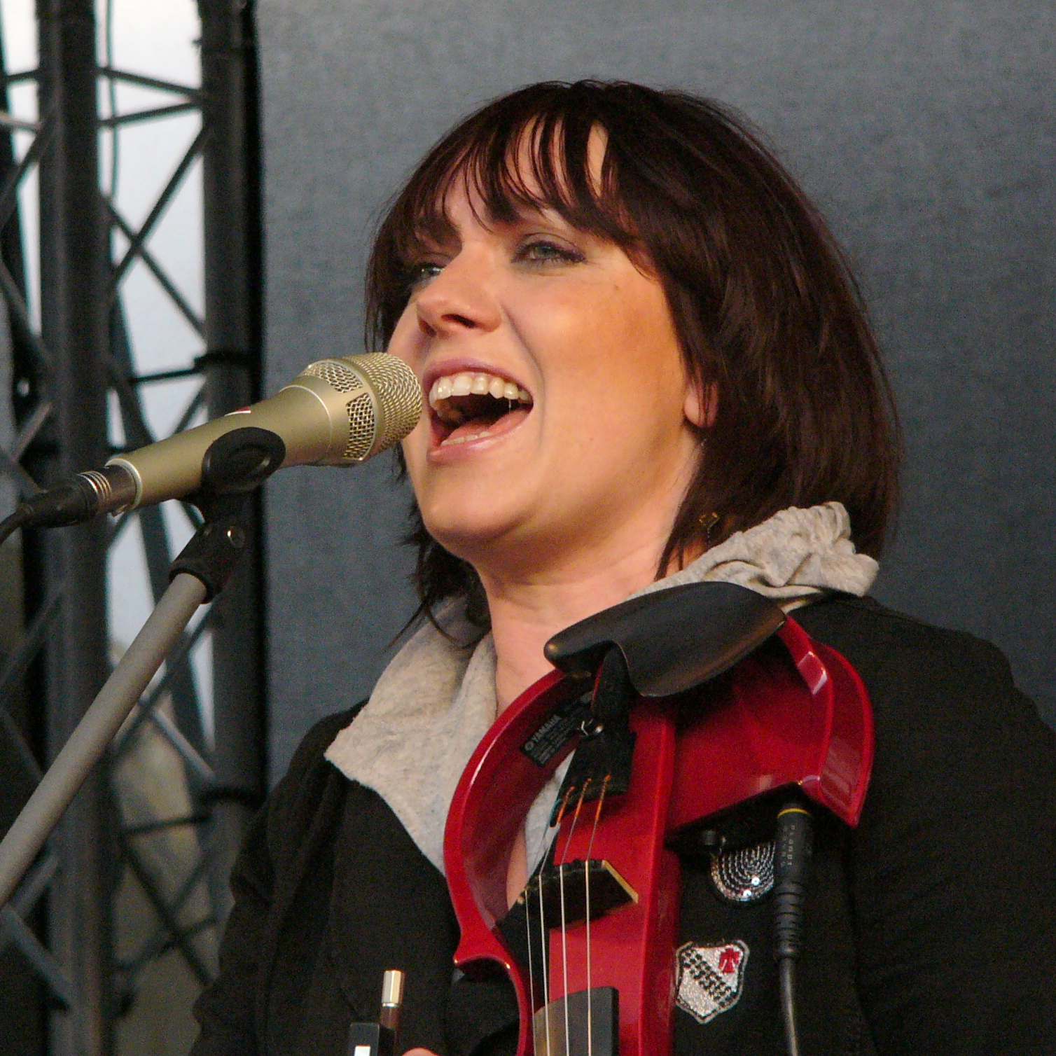 Polish vocalist and violinist Joanna Słowińska